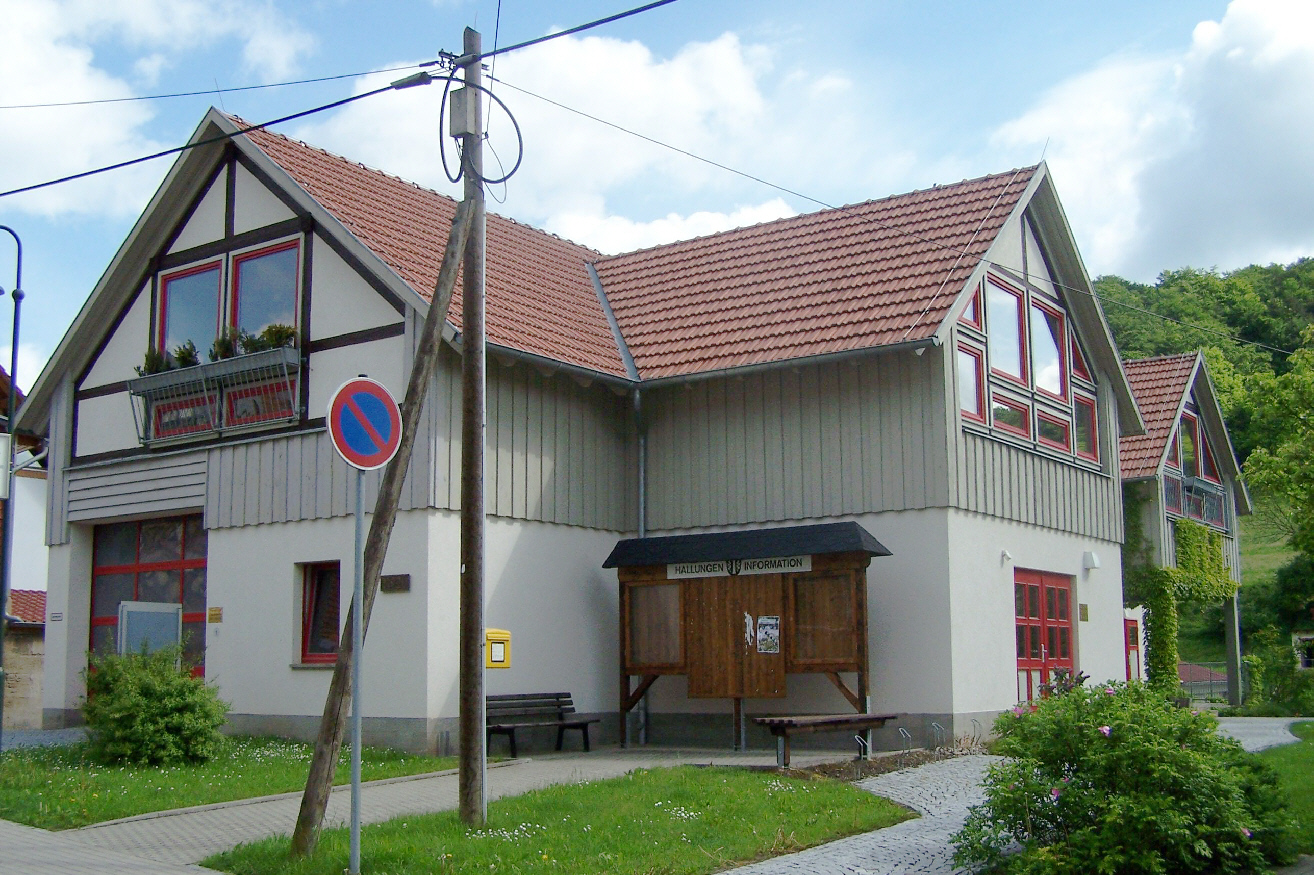 The administration building in Hallungen village.